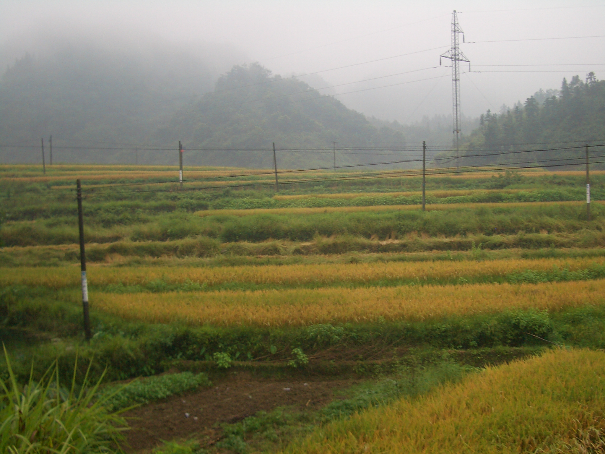 A rice field by the side of S209 between Xianning and Tongshan, still in Xian'an Qu